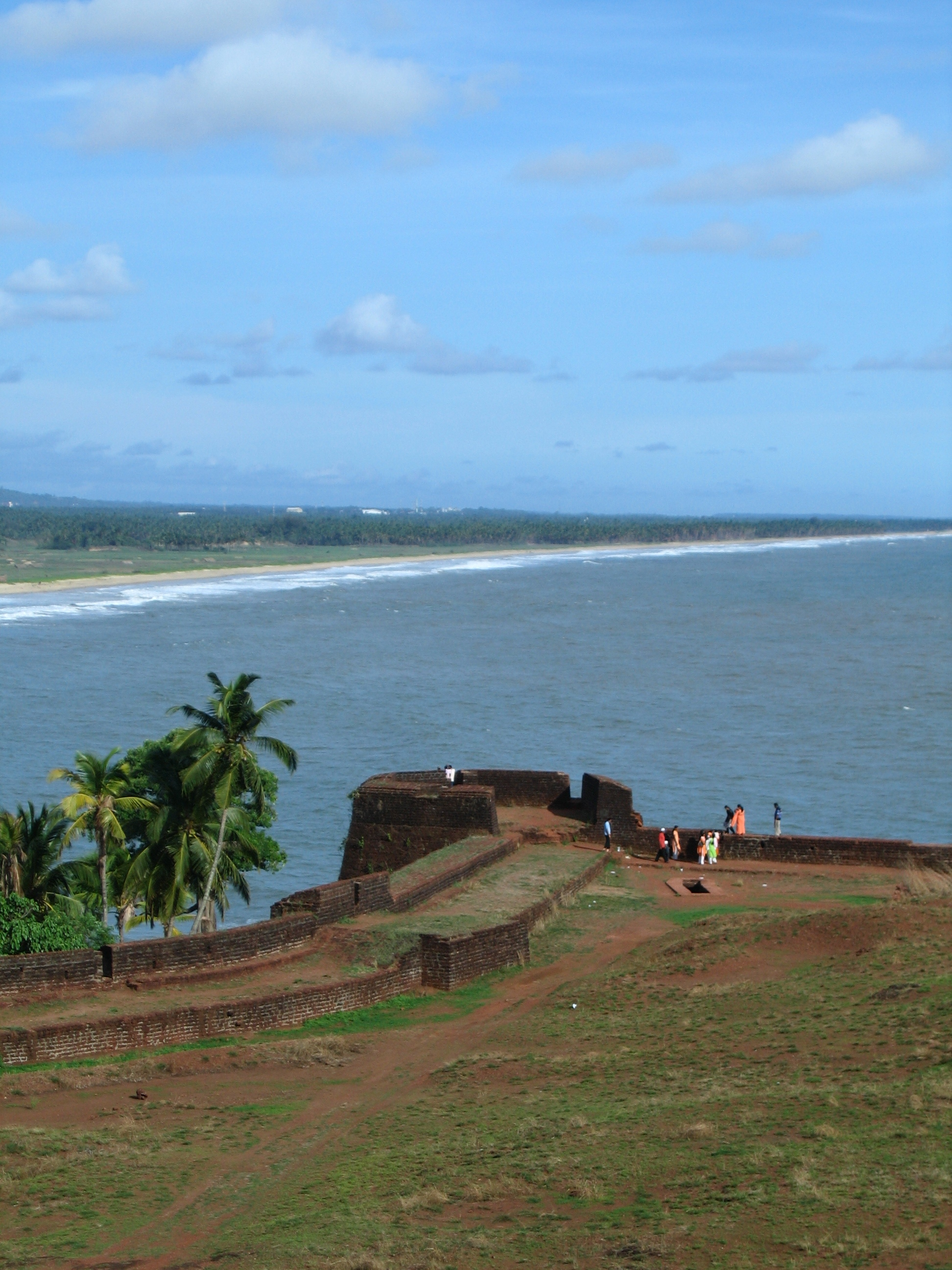 Bakel beach from fort